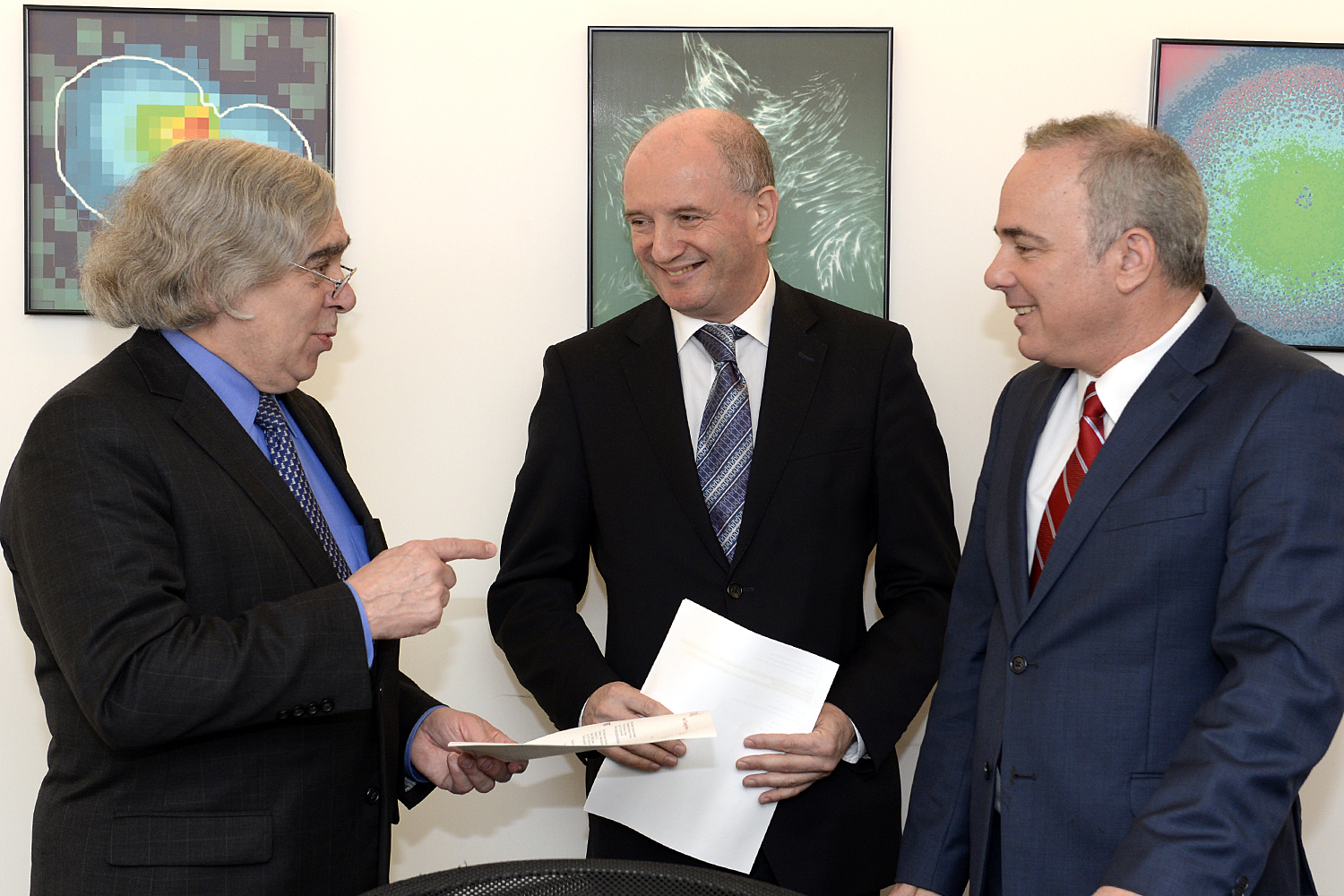 Secretary of Energy, Dr. Ernest Moniz, visited Israel April 3-5 for a round of meetings and events with Israeli government and private sector leaders. After meeting with Prime Minister Netanyahu, Secretary Moniz also met his counterpart, Minister of Infrastructure, Energy, and Water Resources, Dr. Yuval Steinitz, with whom he signed an amendment to the U.S.-Israel Energy agreement. Secretary Moniz was treated to a walking tour of Masada, a helicopter flight over central Israel, and, in focusing on the energy-water nexus of U.S.-Israel energy cooperation, toured the world’s largest seawater desalination plant at Sorek. Secretary Moniz also spoke to the Israel Energy Conference, before meeting and speaking with students at the Weizmann Institute in Rahovot. Photo credit: Matty Stern/U.S. Embassy Tel Aviv Secretary of Energy, Dr. Ernest Moniz, visited Israel April 3-5 for a round of meetings and events with Israeli government and private sector leaders. After meeting with Prime Minister Netanyahu, Secretary Moniz also met his counterpart, Minister of Infrastructure, Energy, and Water Resources, Dr. Yuval Steinitz, with whom he signed an amendment to the U.S.-Israel Energy agreement. Secretary Moniz was treated to a walking tour of Masada, a helicopter flight over central Israel, and, in focusing on the energy-water nexus of U.S.-Israel energy cooperation, toured the world’s largest seawater desalination plant at Sorek. Secretary Moniz also spoke to the Israel Energy Conference, before meeting and speaking with students at the Weizmann Institute in Rahovot. Photo credit: Matty Stern/U.S. Embassy Tel Aviv Ernest Moniz visit to Israel, April 2016